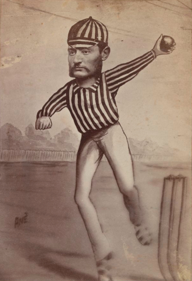 A sketch of Australian Test cricketer Frank Allan bowling.